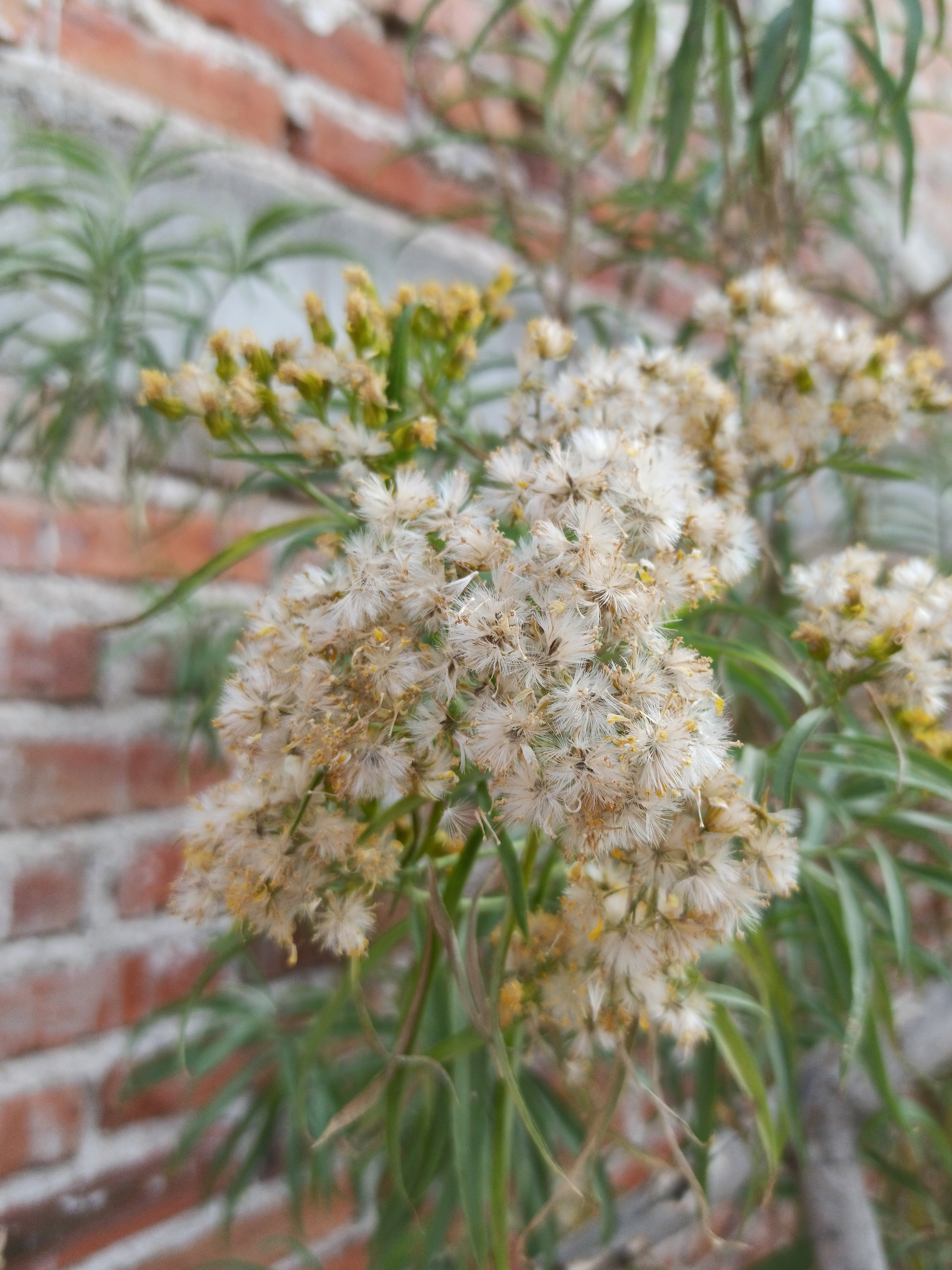 Fruits of Barkleyanthus salicifolius (Family: Asteraceae).